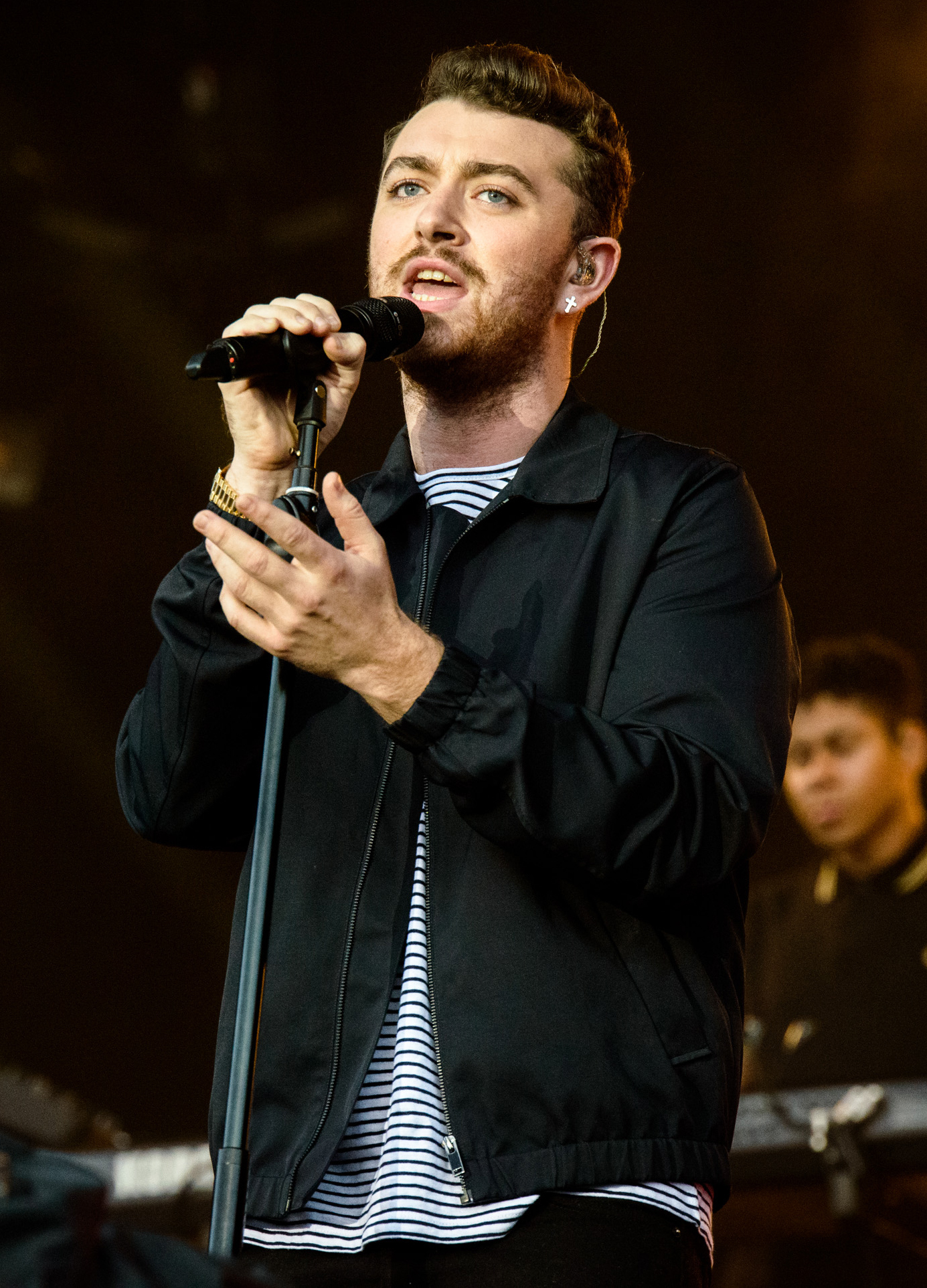 Sam Smith @ Lollapalooza 2015